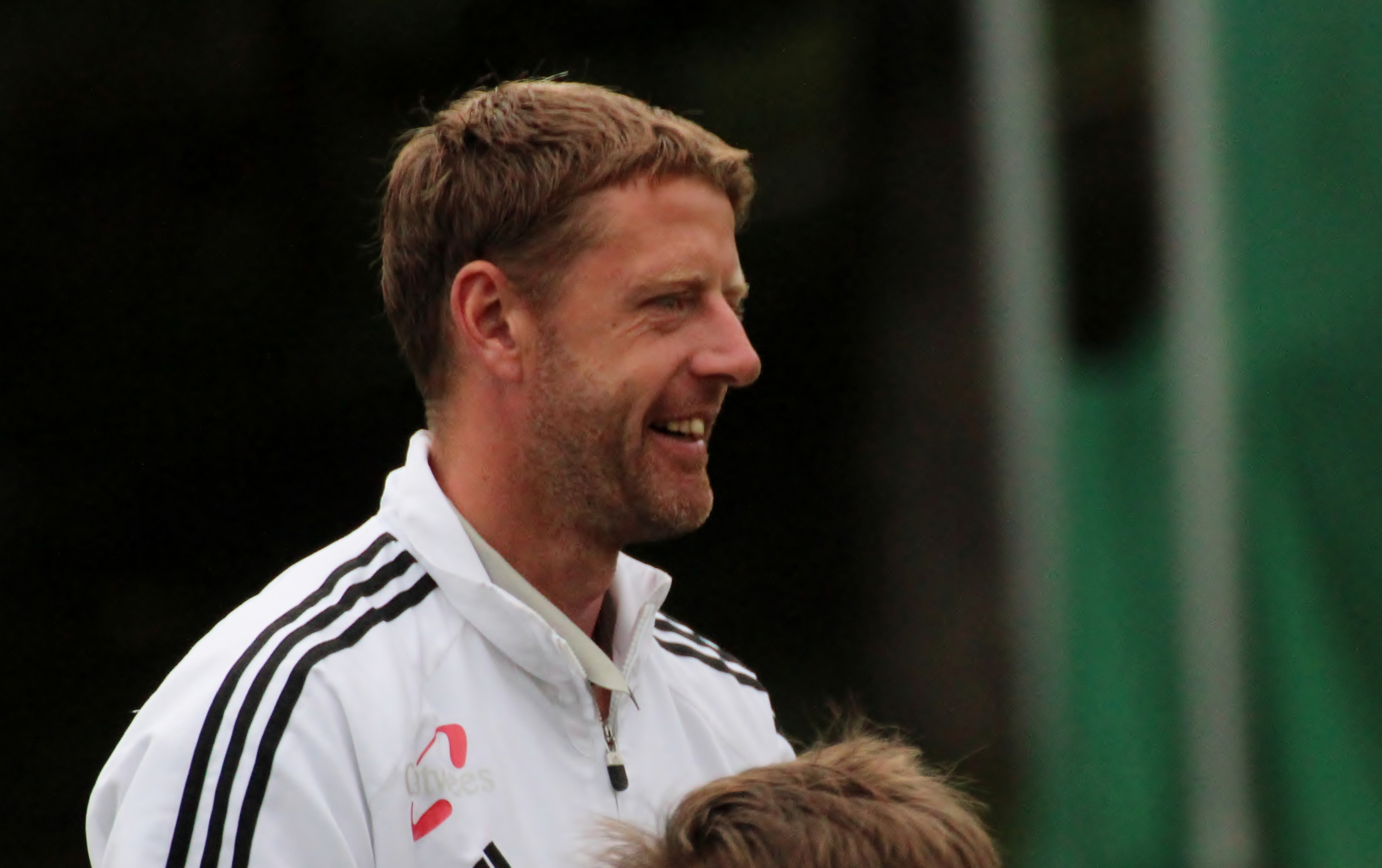 Former Estonian football player, now trainer Indrek Zelinski